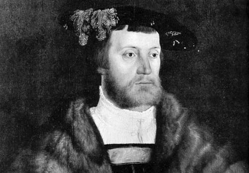 §Summary William IV (Bavaria)